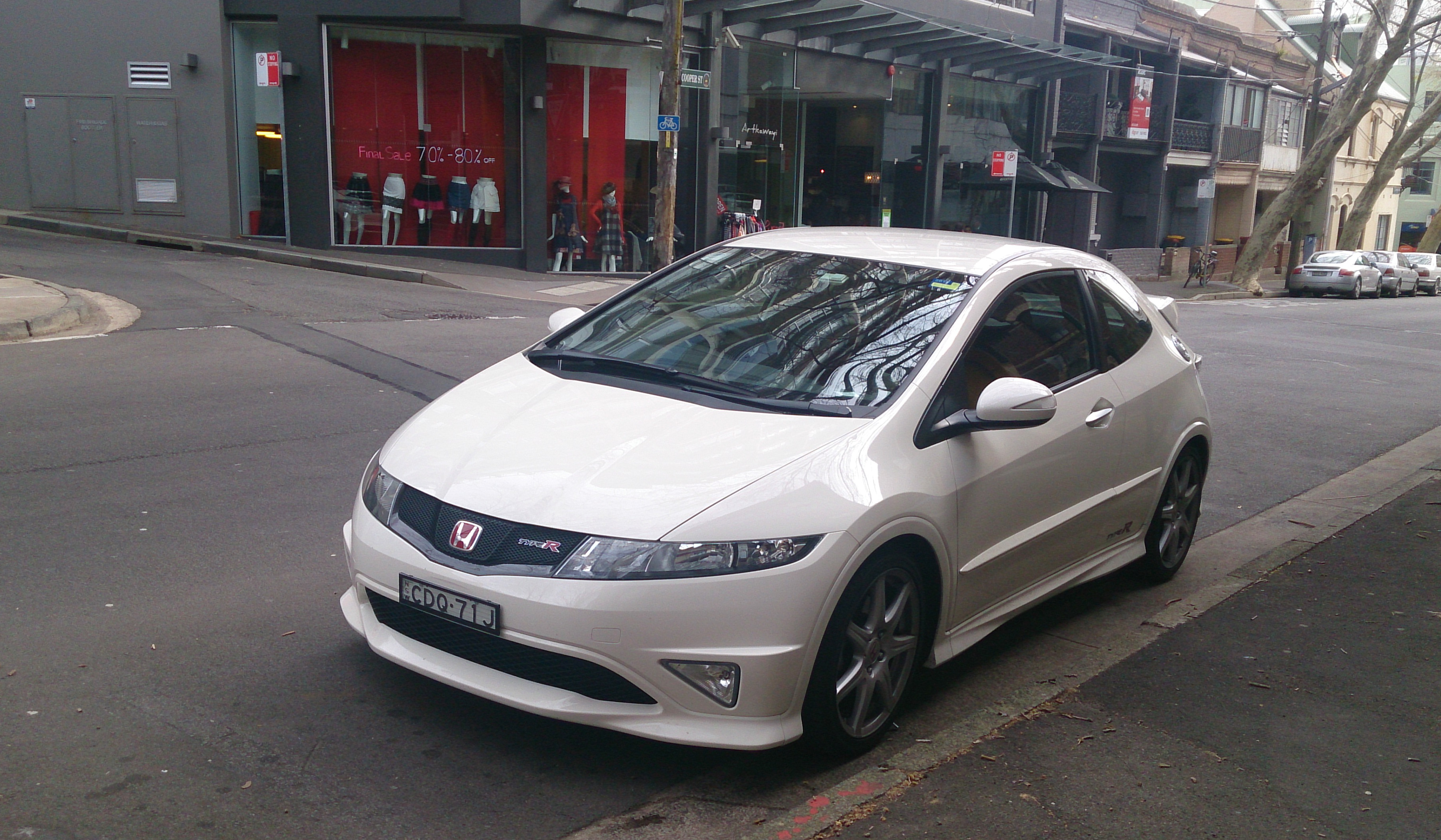 Honda Civic Type R